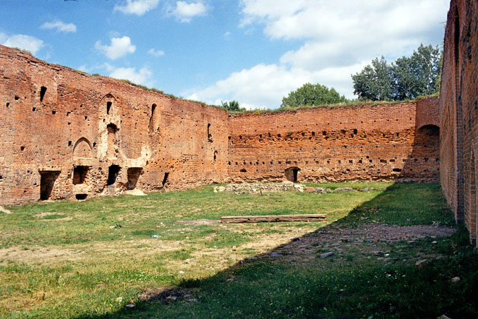 Toruń, Dybów castle, courtyard